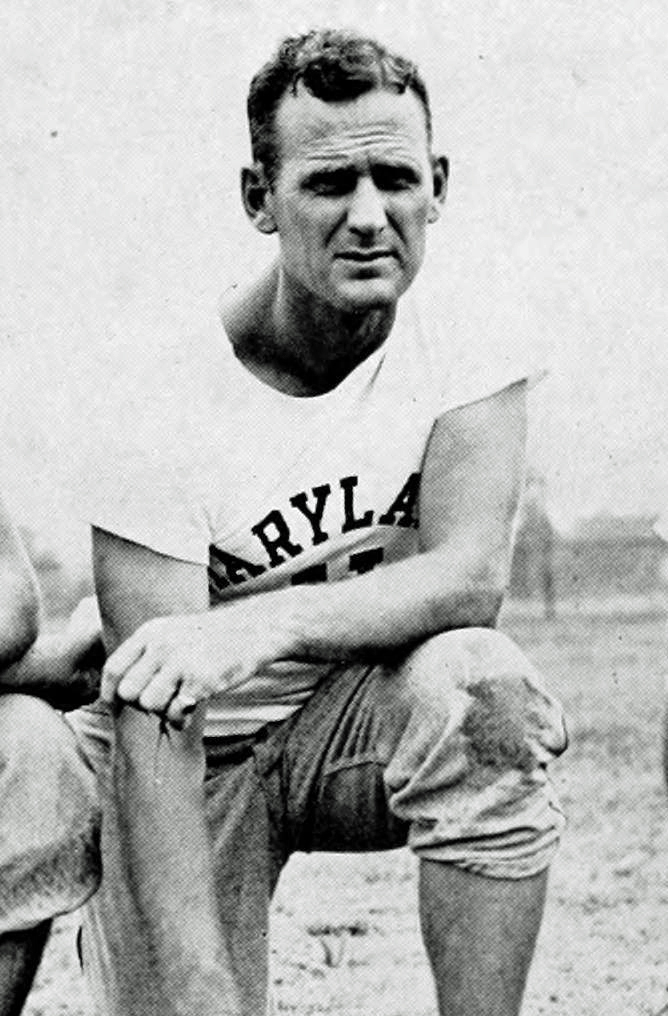 A 32-year old Bear Bryant while head football coach at the University of Maryland in 1945.